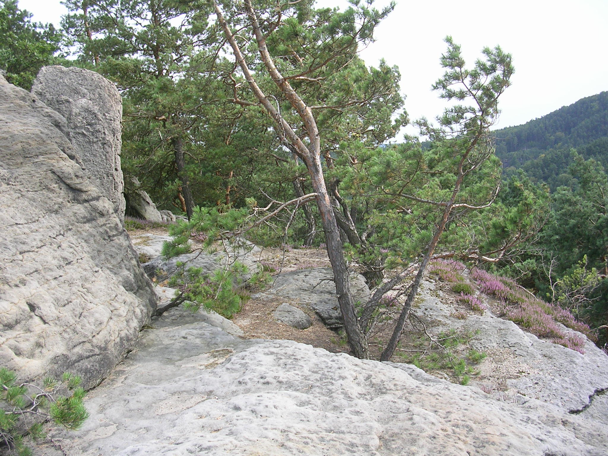 Dubá-Korce, Česká Lípa District, Liberec Region, the Czech Republic. Vysoký vrch.